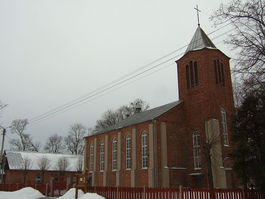 Church in Zapyskis (Lithuania)